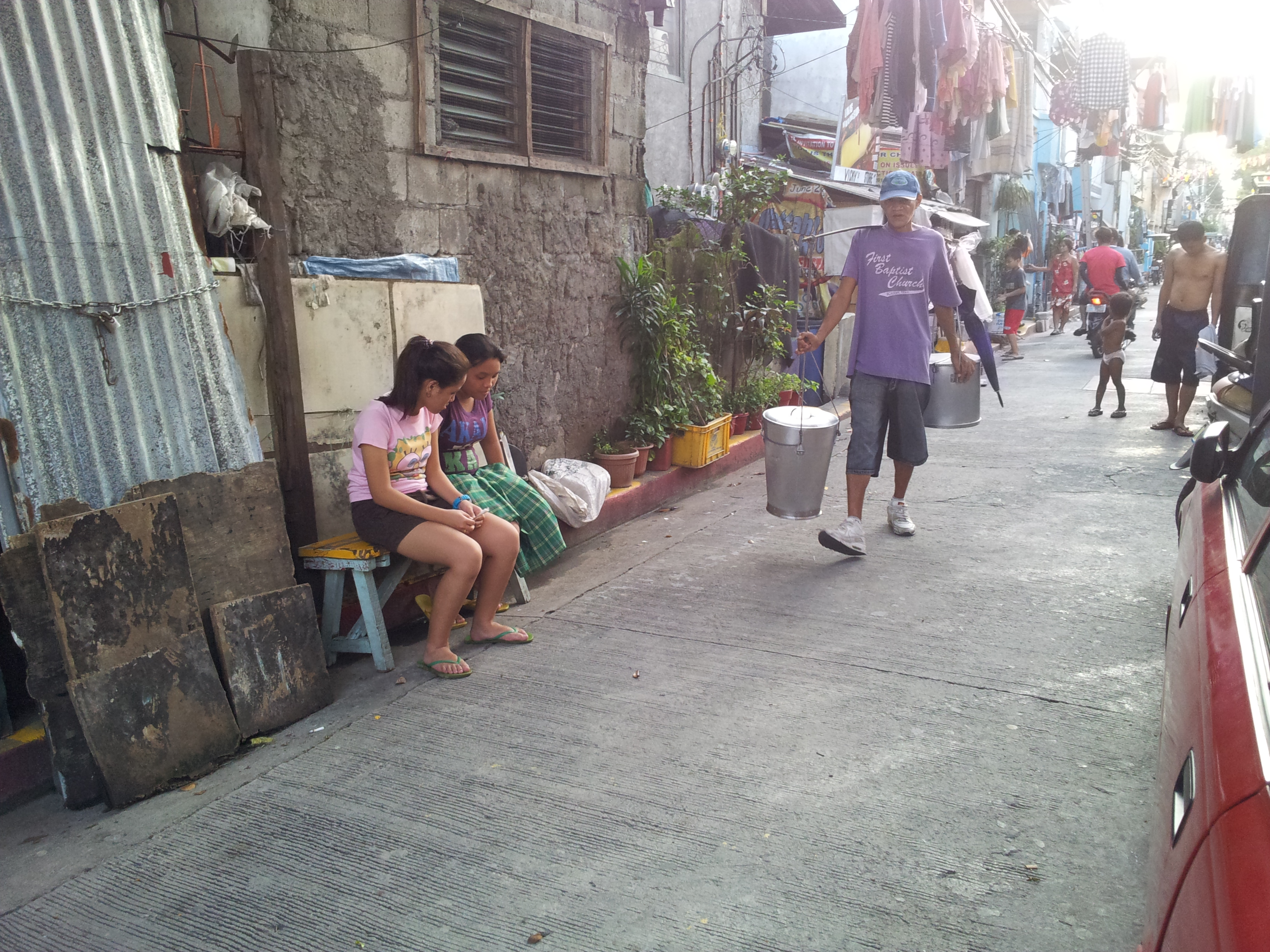 A magtatahô (taho vendor) walking thru a residential area of Manila